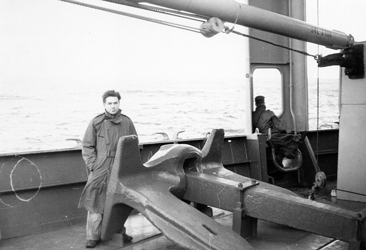 US Army soldiers aboard the USS General LeRoy Eltinge (AP-154) while being utilized as a transport ship during the Korean War. Photo by PFC Joseph Richard Carr, U.S. Army (deceased)